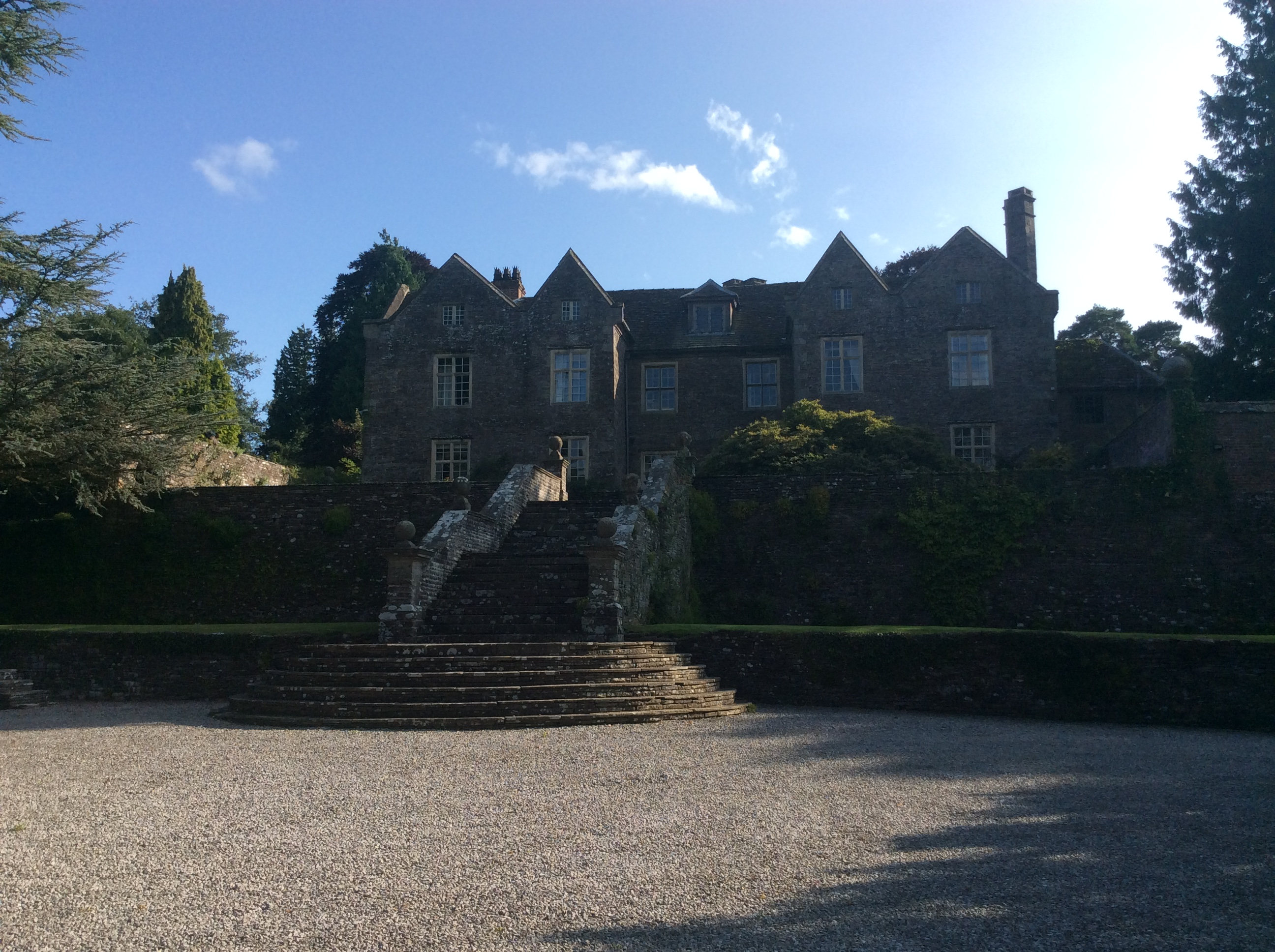 Llanvihangel Court, Llanvihangel Crucorney, Monmouthshire